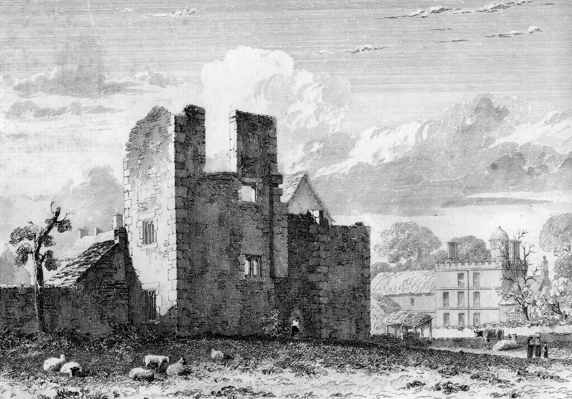 Ruins of Sheffield Manor as they appeared c1819.